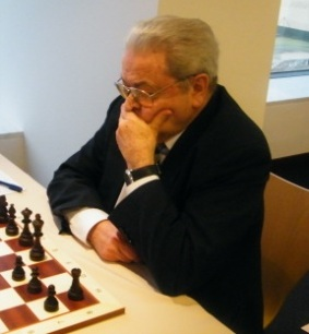 IM Joaquim Durão (Figueira da Foz, November 2009)